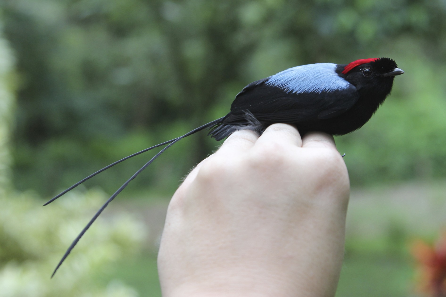 Long-tailed Manakin (Chiroxiphia linearis)